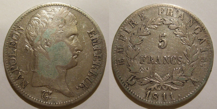 France. Coin 5 francs, 1811, Napoleon